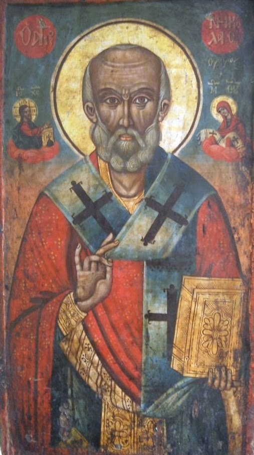 St Nicholas Sliveni Kormilia St Nicholas Icon